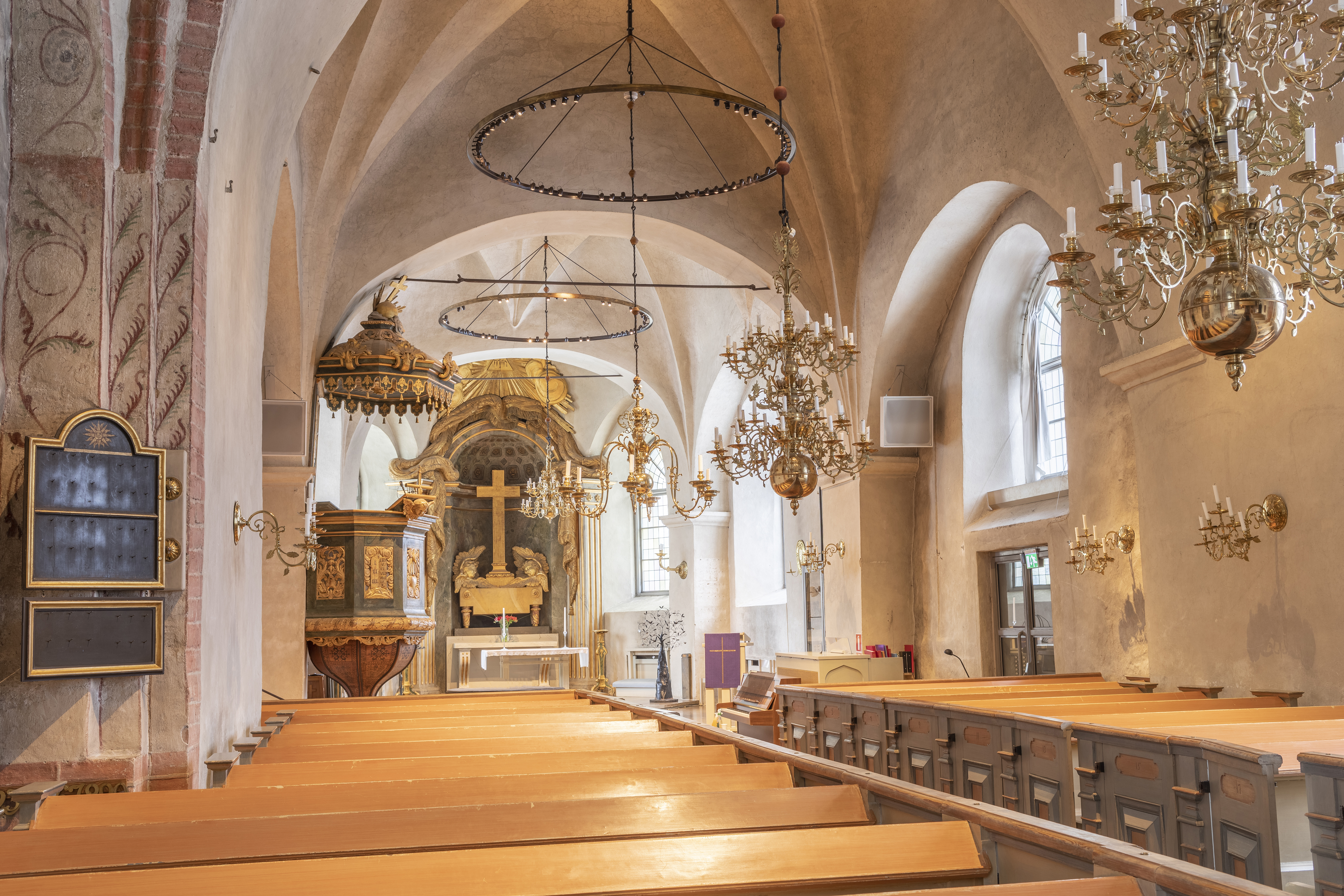 Interior of Sollentuna Church in Sollentuna Sweden